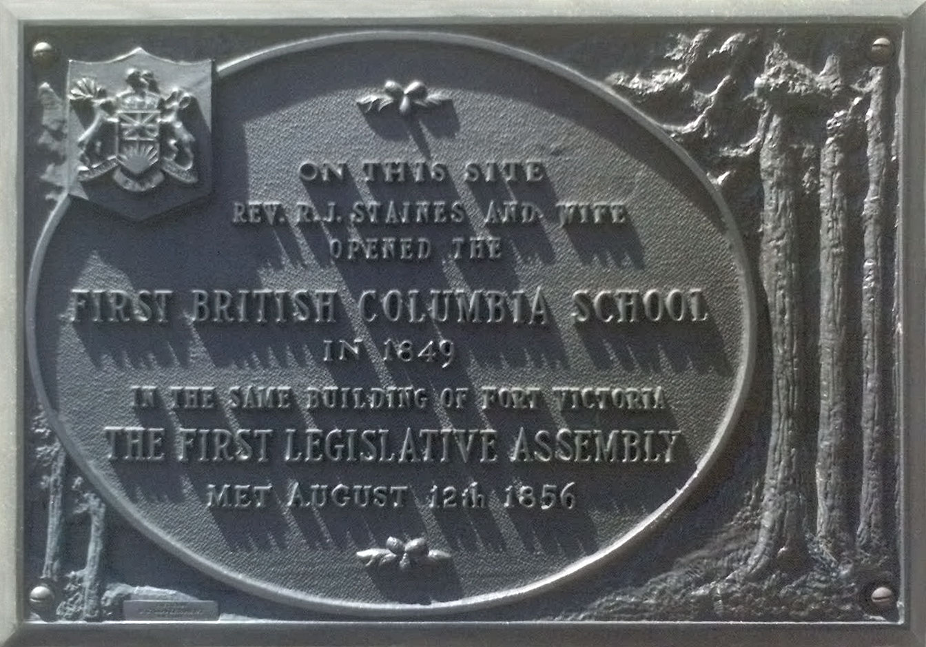 Plaque marking spot of 1st BC public school, taken by Bill Kempthorne (User:Wakemp) May 30,2006